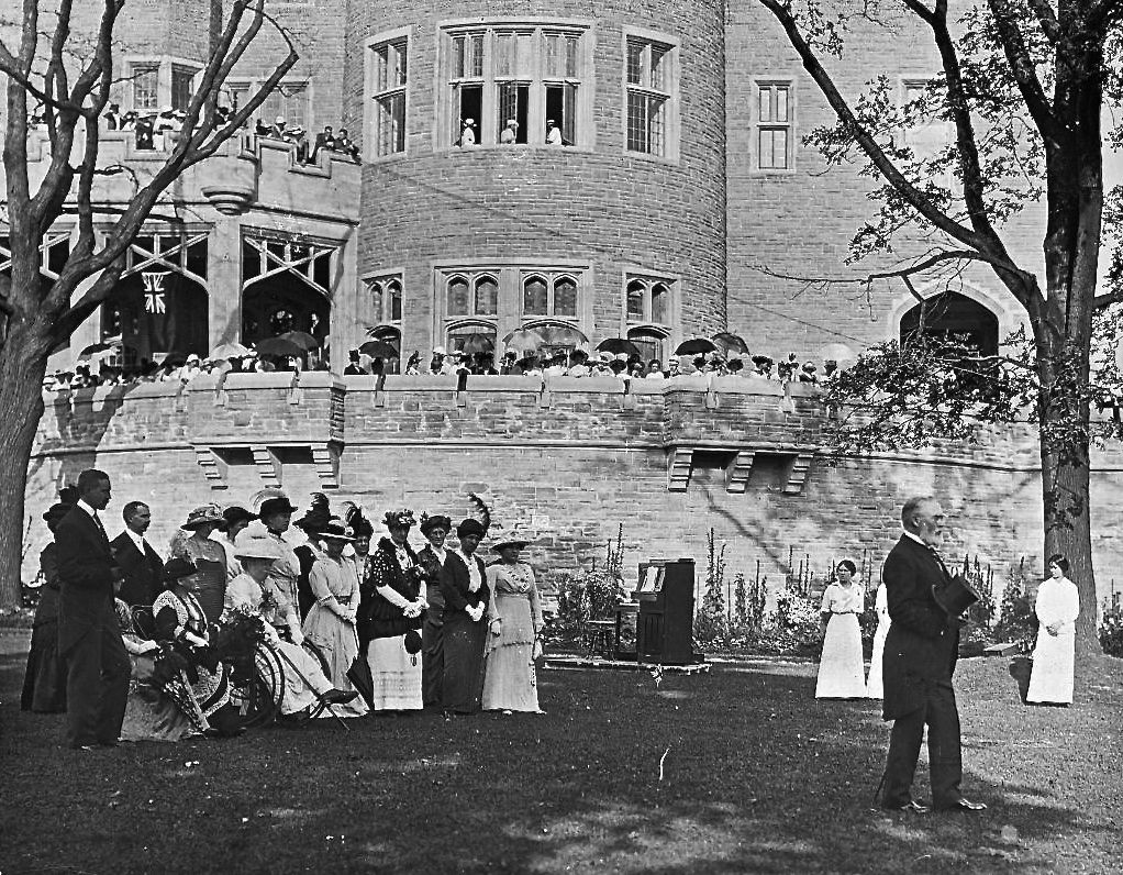 Photographs : Garden party, Casa Loma, 1 Austin Terrace, Toronto, Ontario, Canada; circa 1914; Fonds 1244, Item 4049.